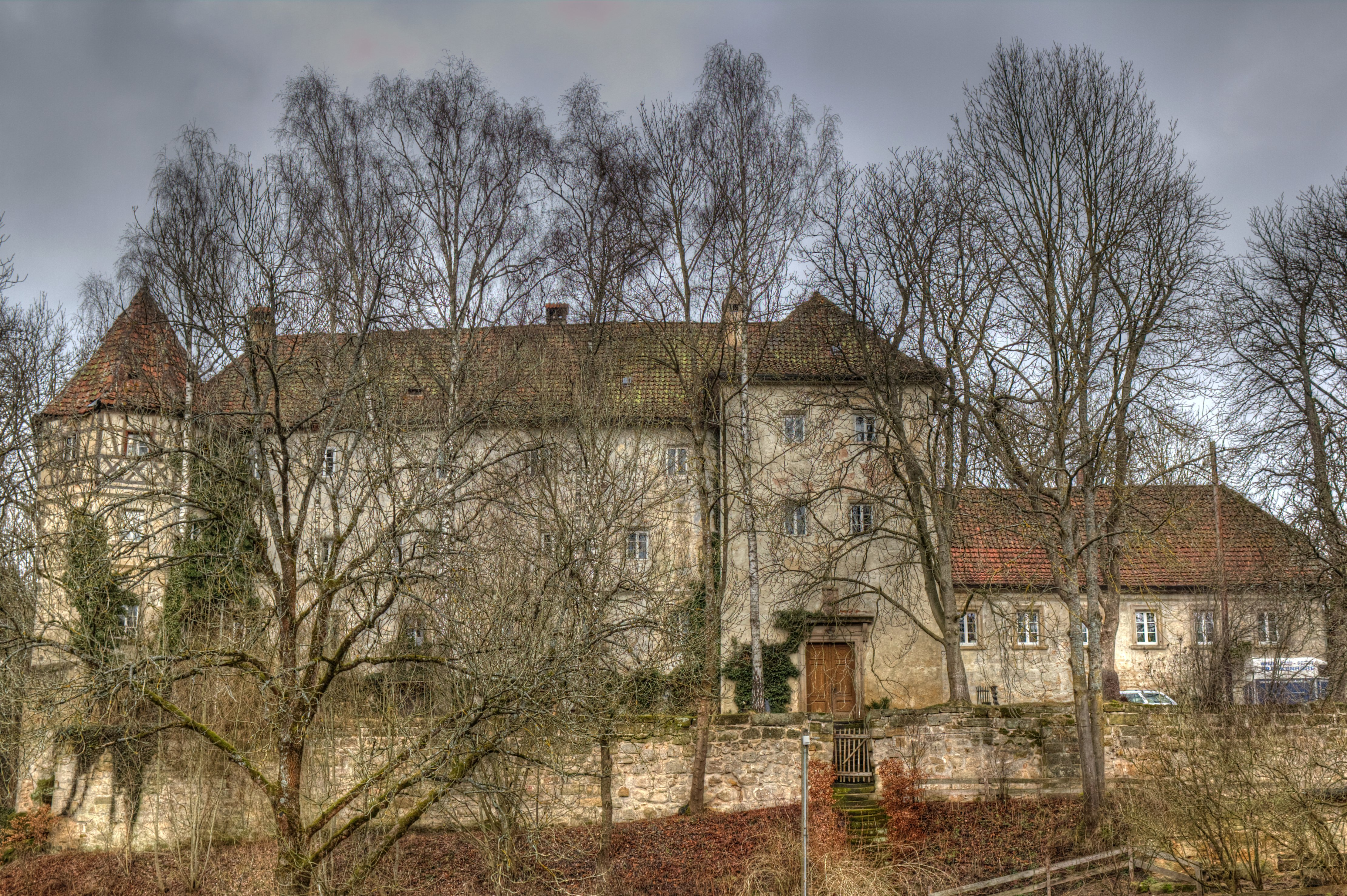 HDR-Image of "Schloss Wildenroth" (Burgkunstadt, Bavaria)